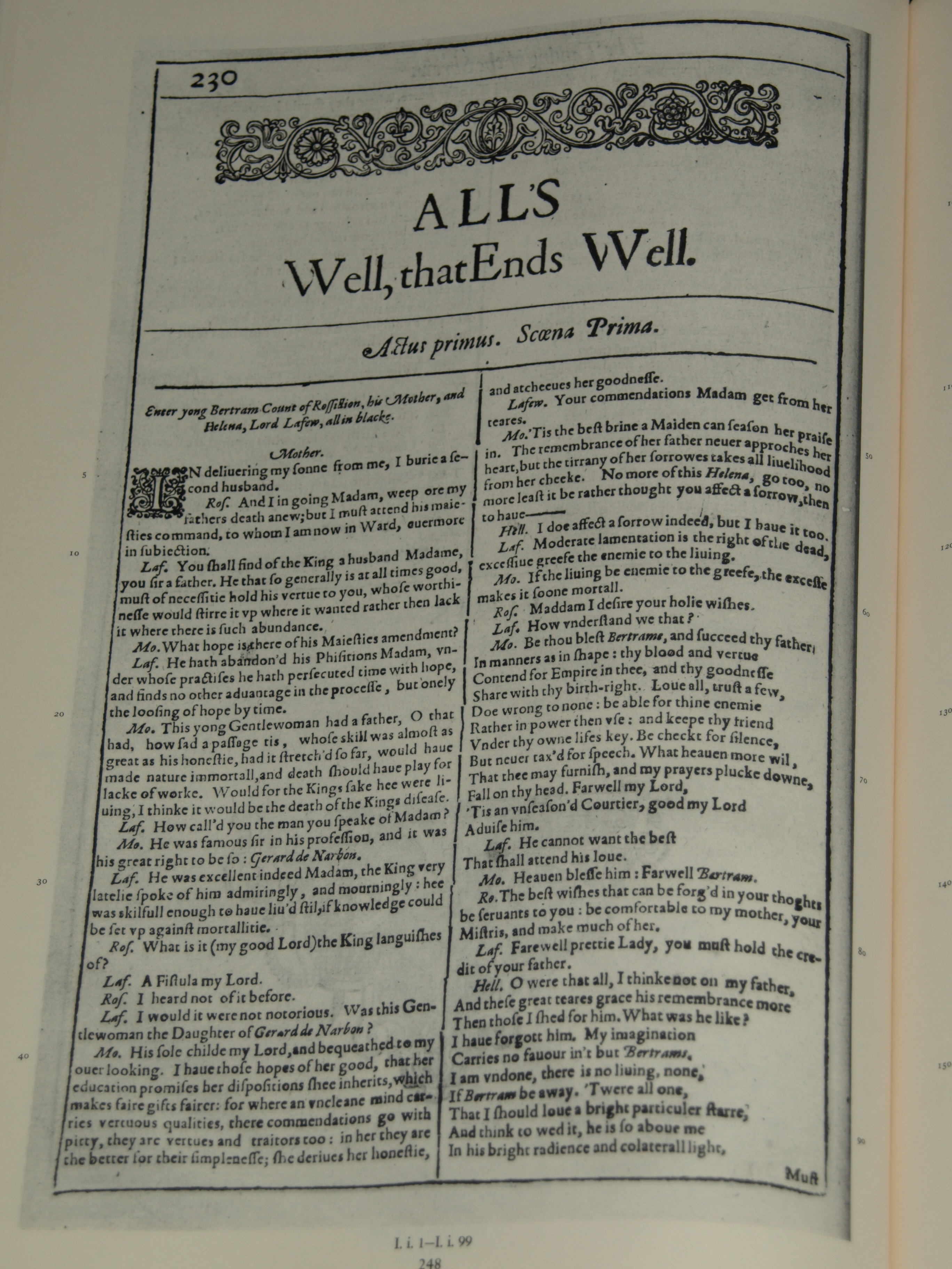 Photo of the first page of All's Well that Ends Well from a facsimile edition of the First Folio of Shakespeare's plays, published in 1623